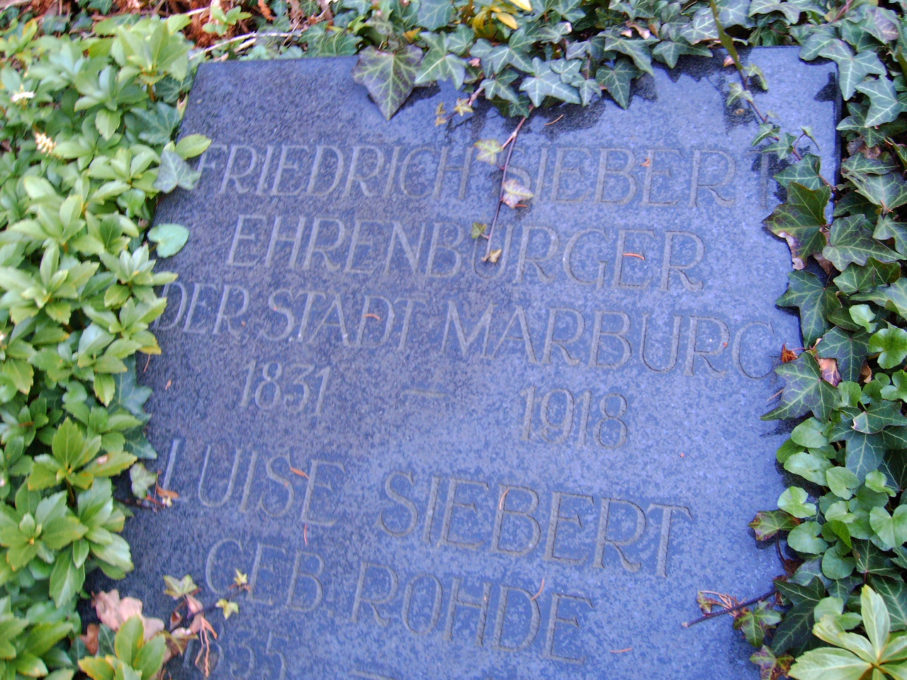 Grabstätte Siebert Marburg